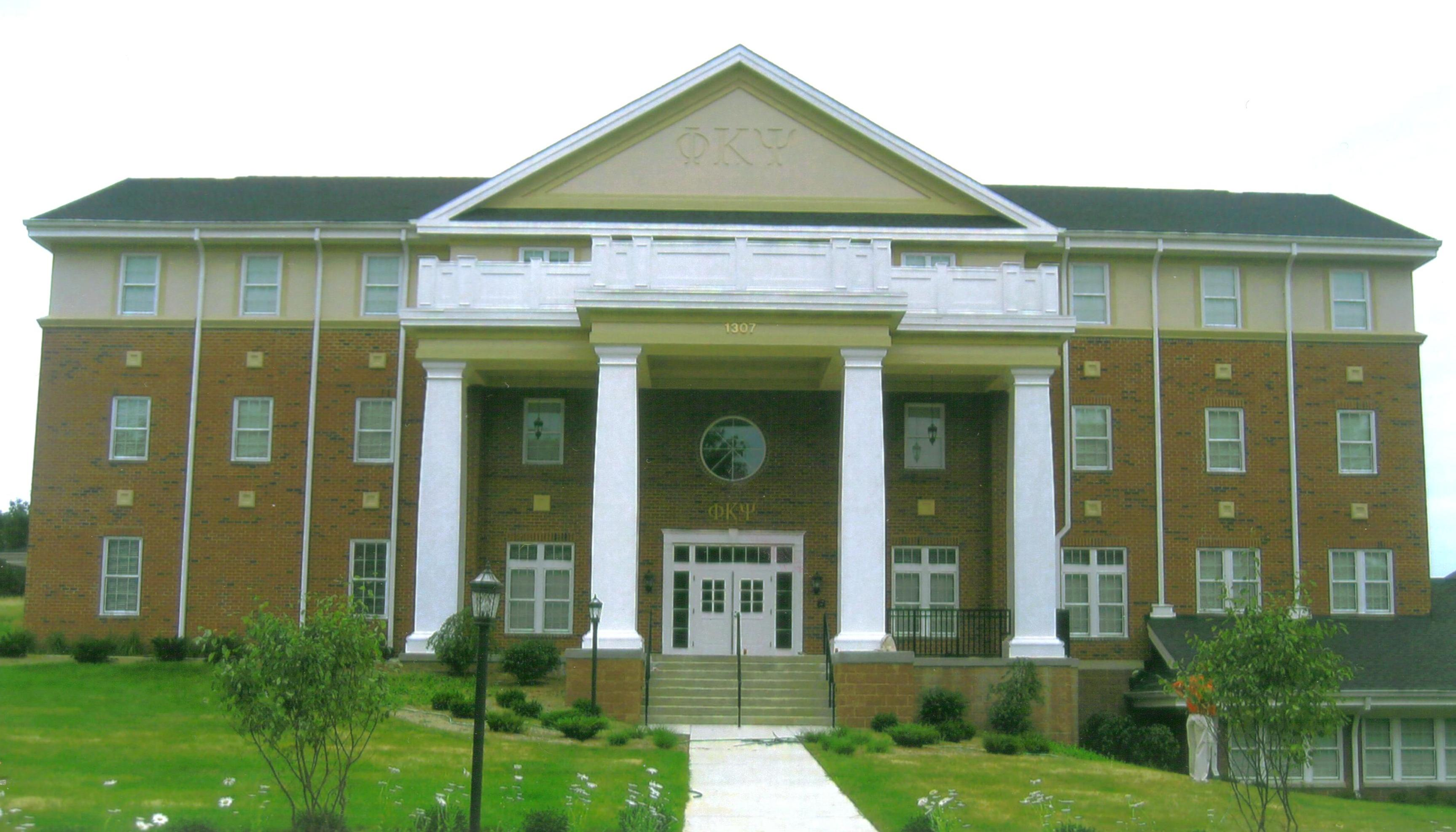 Phi Psi IN Delta House Exterior